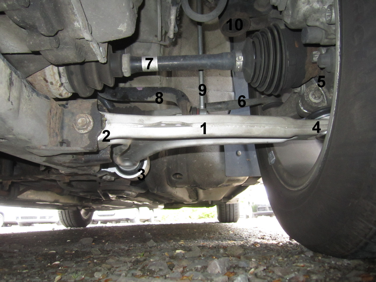 Control Arm of the (MacPherson-) front axle of an Opel Vectra C.